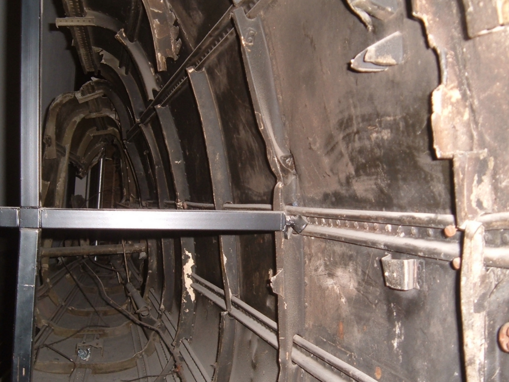 The wafer thin aluminium skin from the rear fuselage of Hess's Me 110.